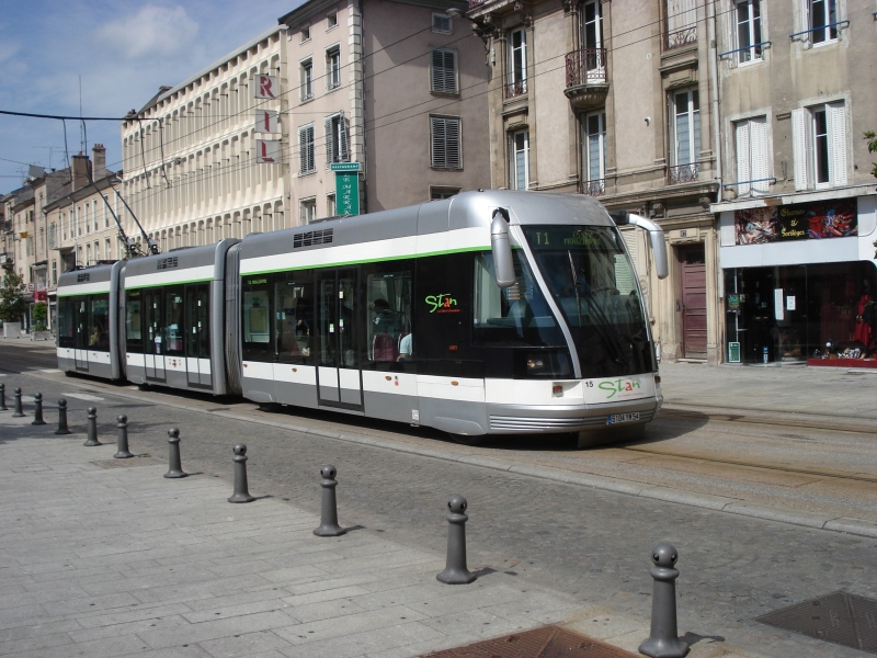 An articulated trolleybus built by Bombardier, on Nancy's partly-guided trolleybus line, known locally as the tram. Summer 2006.